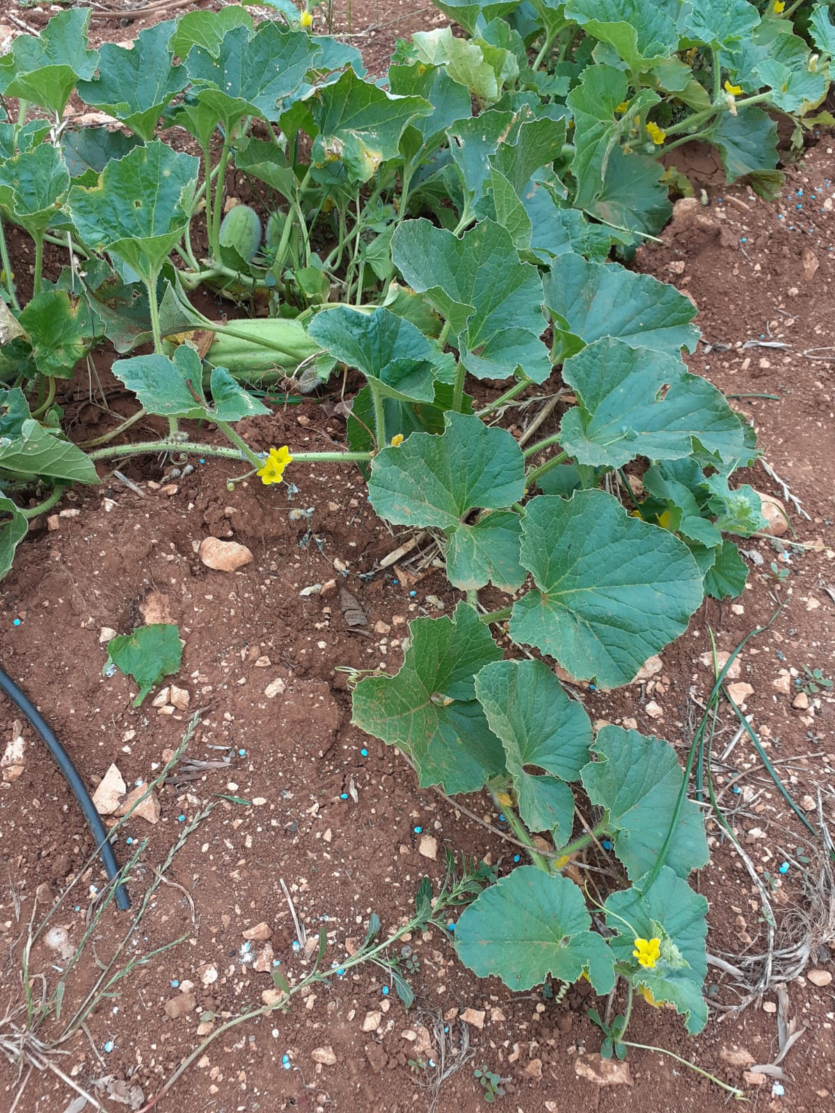 This picture represents a cucumis sativus plant, with a cucumber and any flowers.